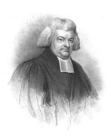 Portrait of William Bull (1738–1814) was an English independent minister, from Memorials of the Rev. William Bull, of Newport Pagnel (1864) by Josiah Bull.